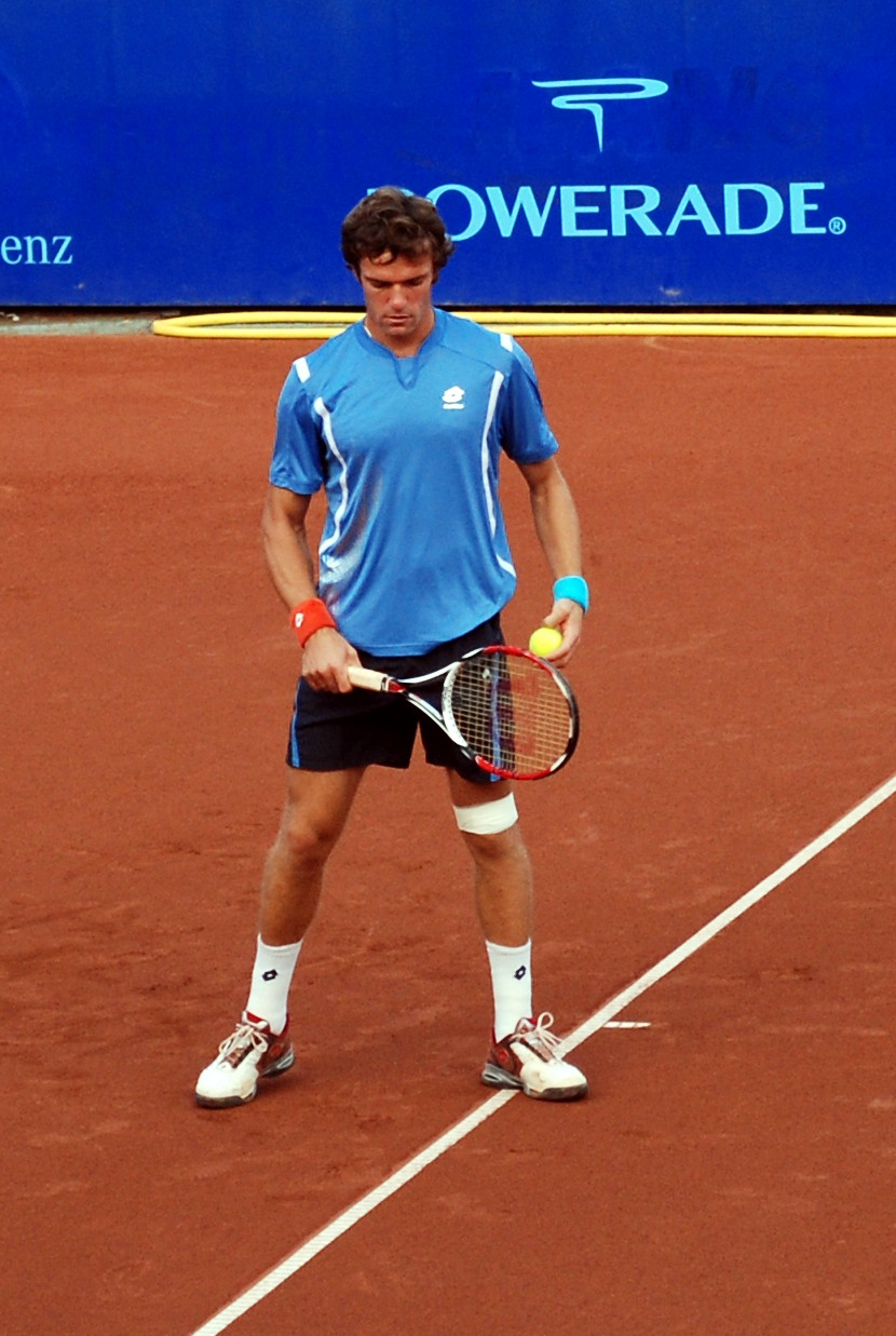 Russian tennis player Teimuraz Gabashvili at the 2008 BCR Open Romania in Bucharest